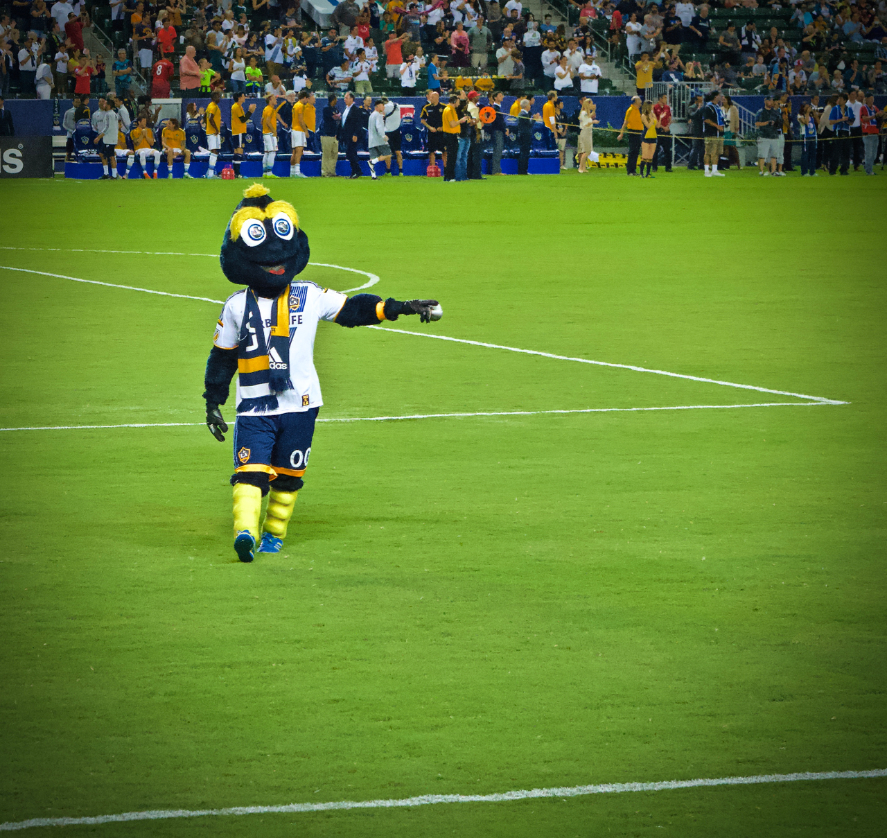 Cozmo on the Galaxy pitch, during the half.